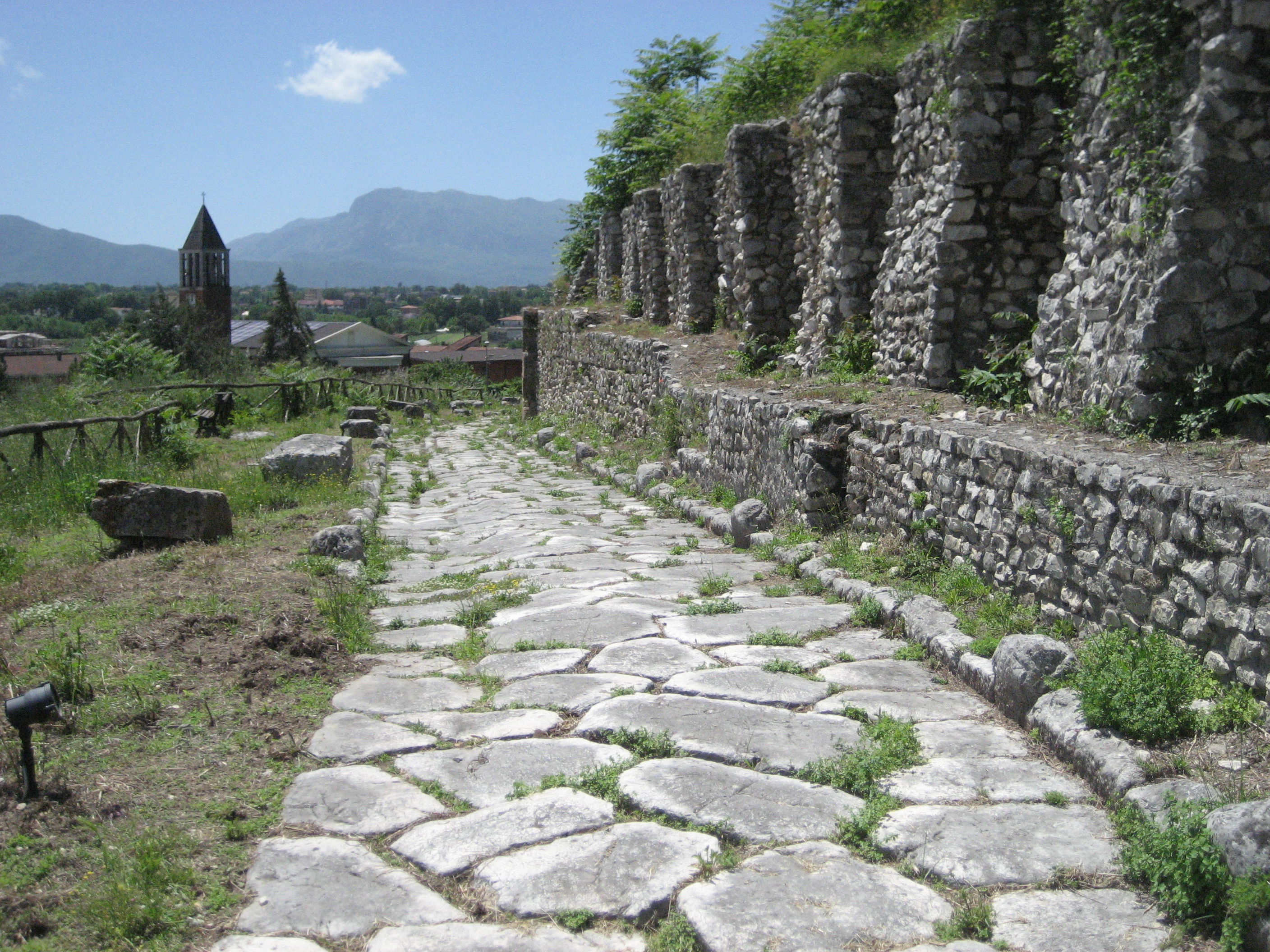 Roman road in Casinum